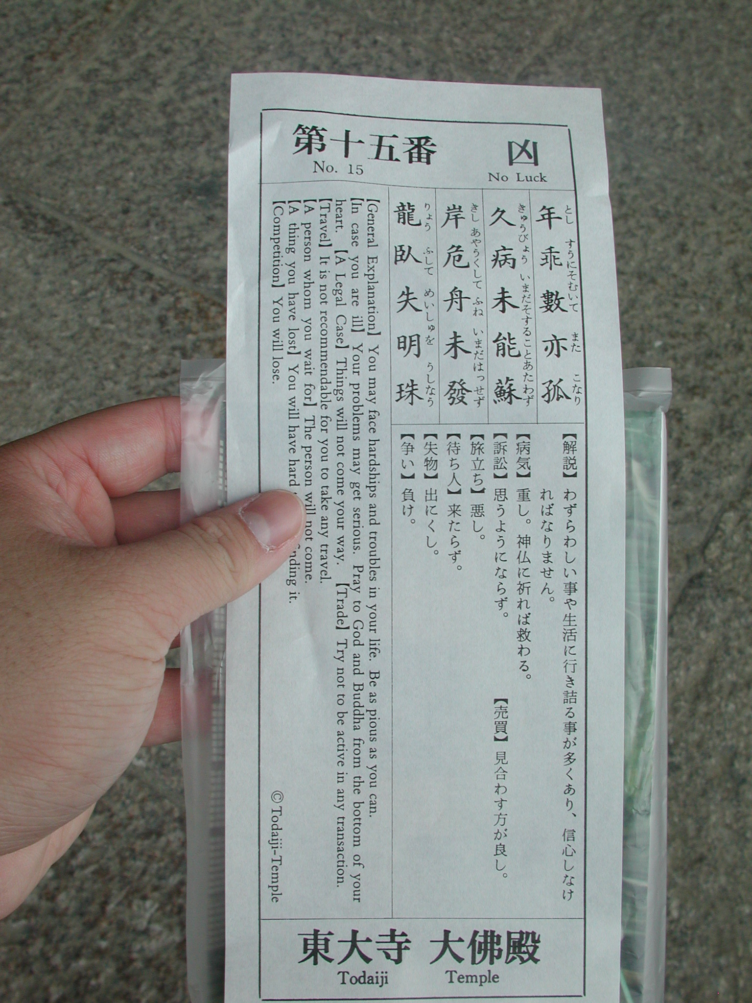 Omikuji from Tōdai-ji, the Eastern Great Temple, in Nara, Japan.